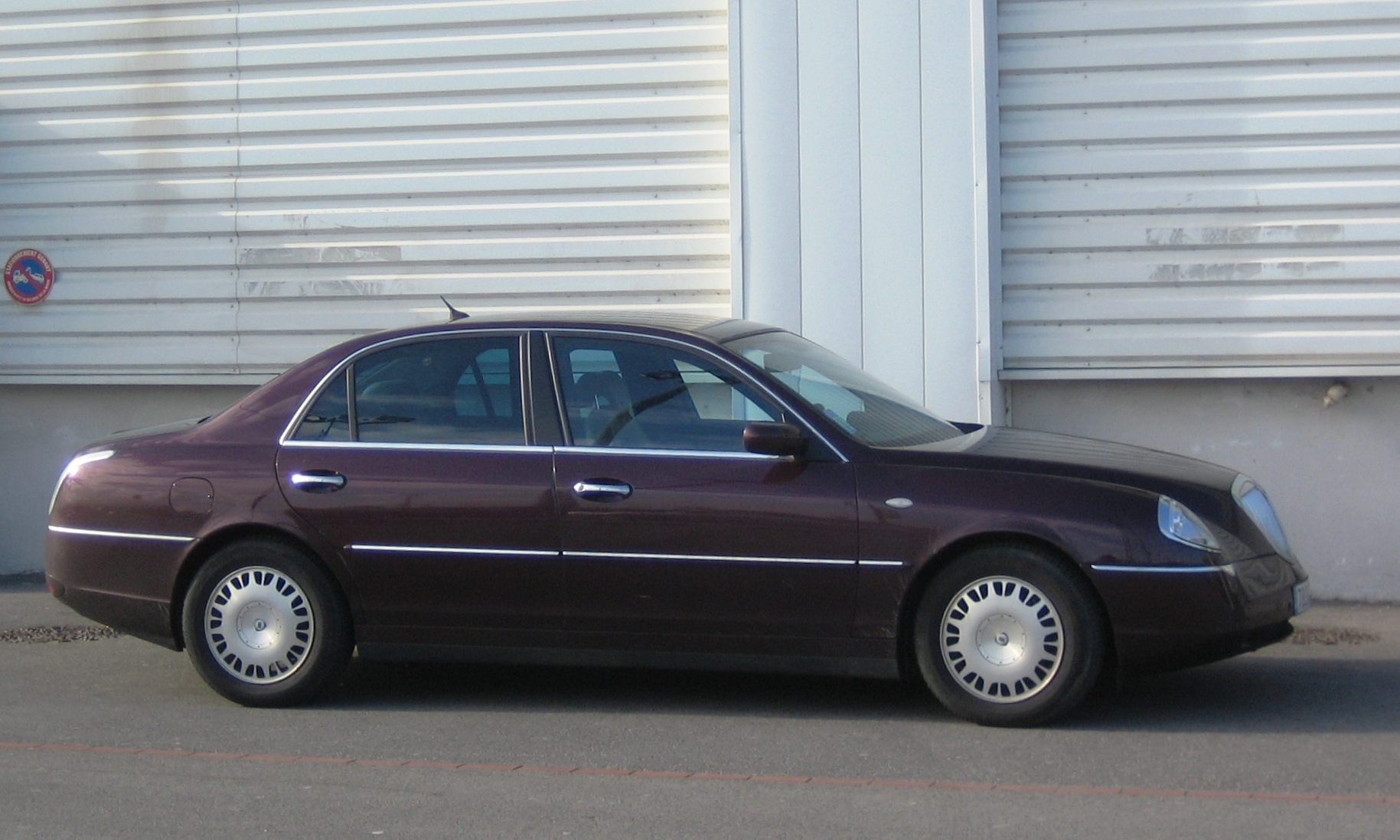 Lancia thesis Seitenansicht 2008